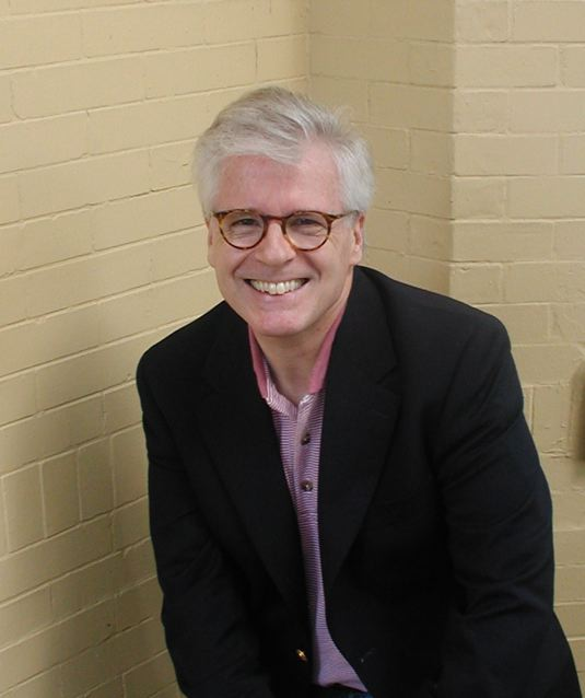 Photo of Thomas Mallon during Summer 2009.